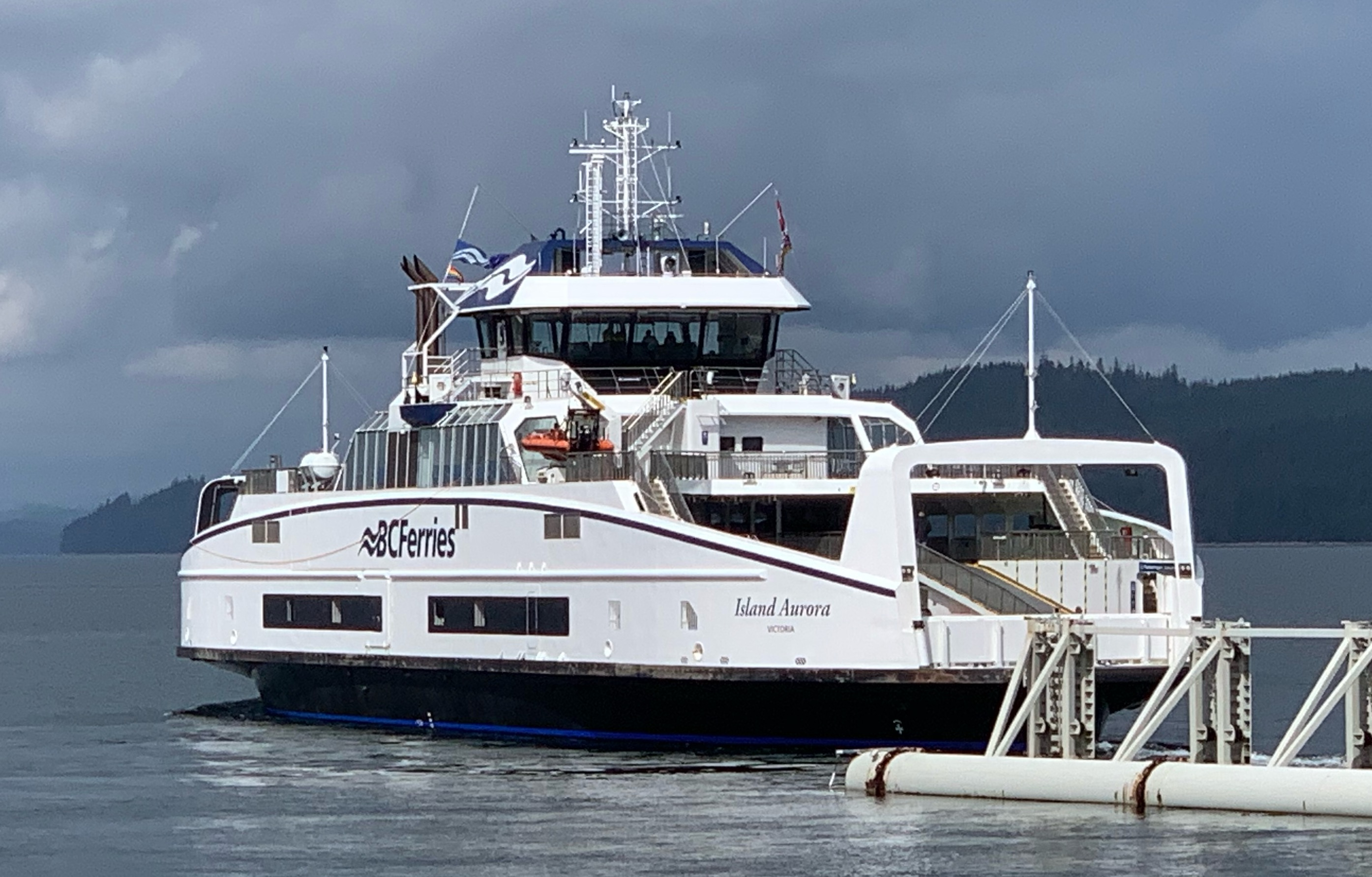 Island Aurora departs from Sointula